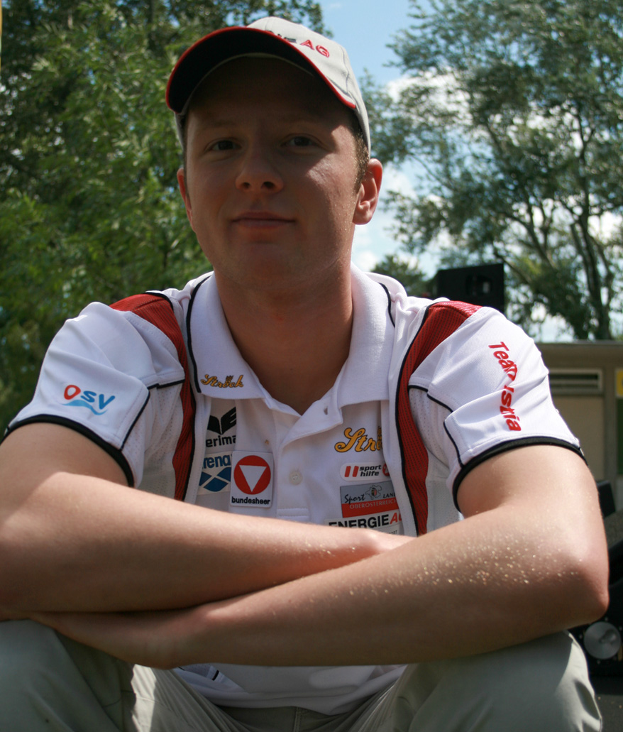 Swimmer Dominik Koll at the presentation of the Austrian team for the 2008 Summer Olympics in China (Strandbad Gänsehäufel, Vienna)